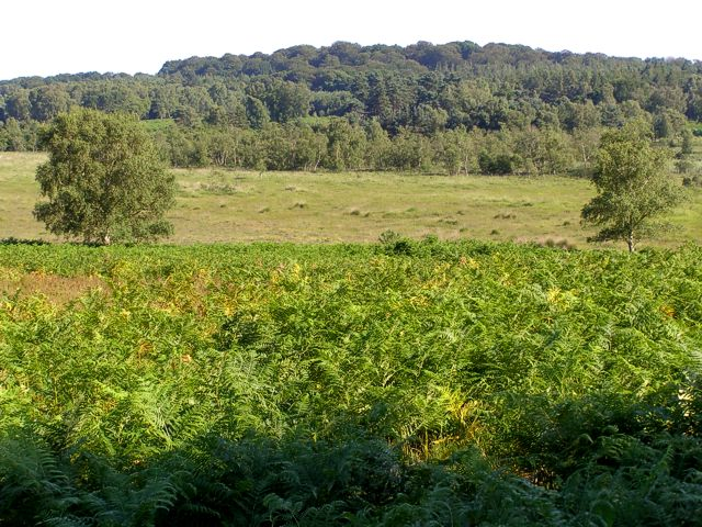 View across the Bishop of Winchester's Purlieu towards Woodfidley, New Forest. Looking south from the edge of Denny Wood towards Woodfidley (the wooded high ground in the distance, within the Denny Lodge Inclosure). The Bishop's Purlieu is the boggy area in the middle distance and the silver birch trees on the right and left are growing on the Bishop's Dyke (the earthwork that defines the boundary of the Purlieu).